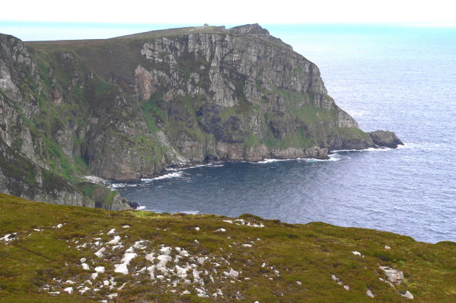 Horn Head - View of head from loop road Road scenes along an oblong road on Horn Head located on east slope in a SW-NE orientation and driven in CW direction.